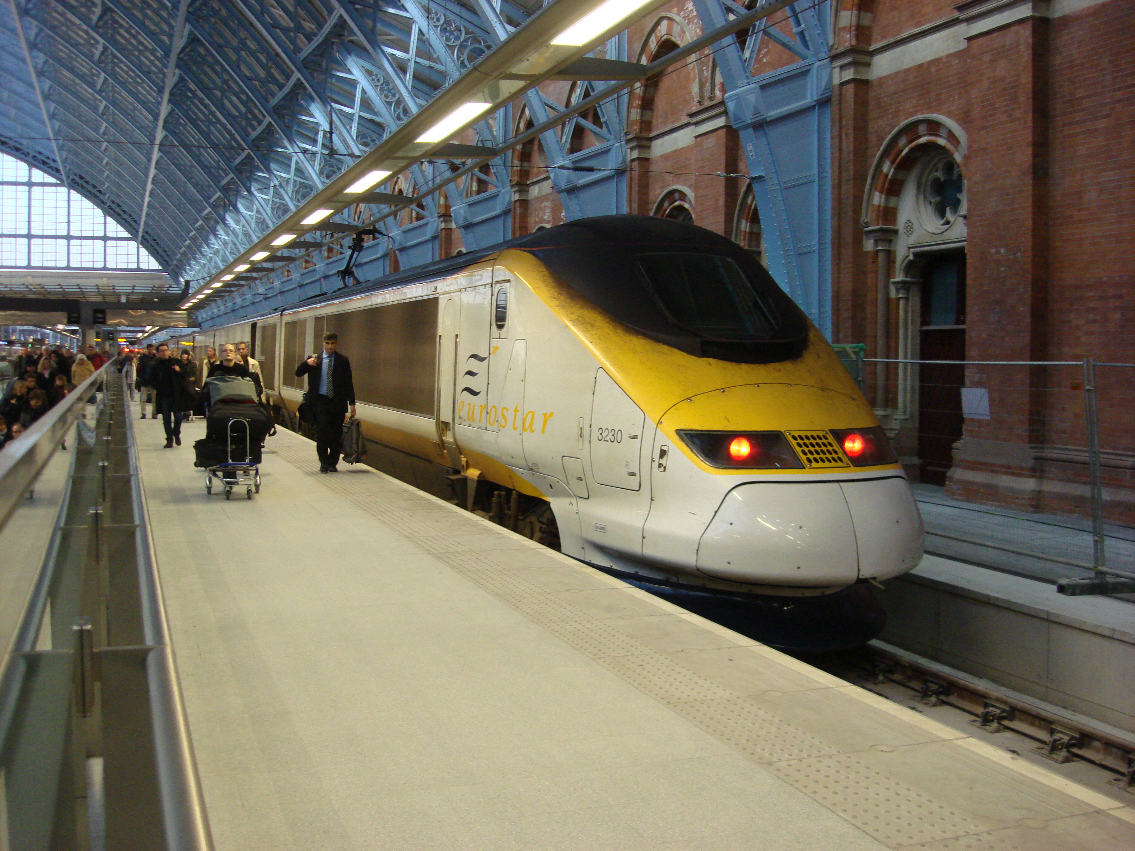 Eurostar, British Rail Class 373 at St Pancras railway station. this train has just arived with the 14:59 service from Brussels Midi